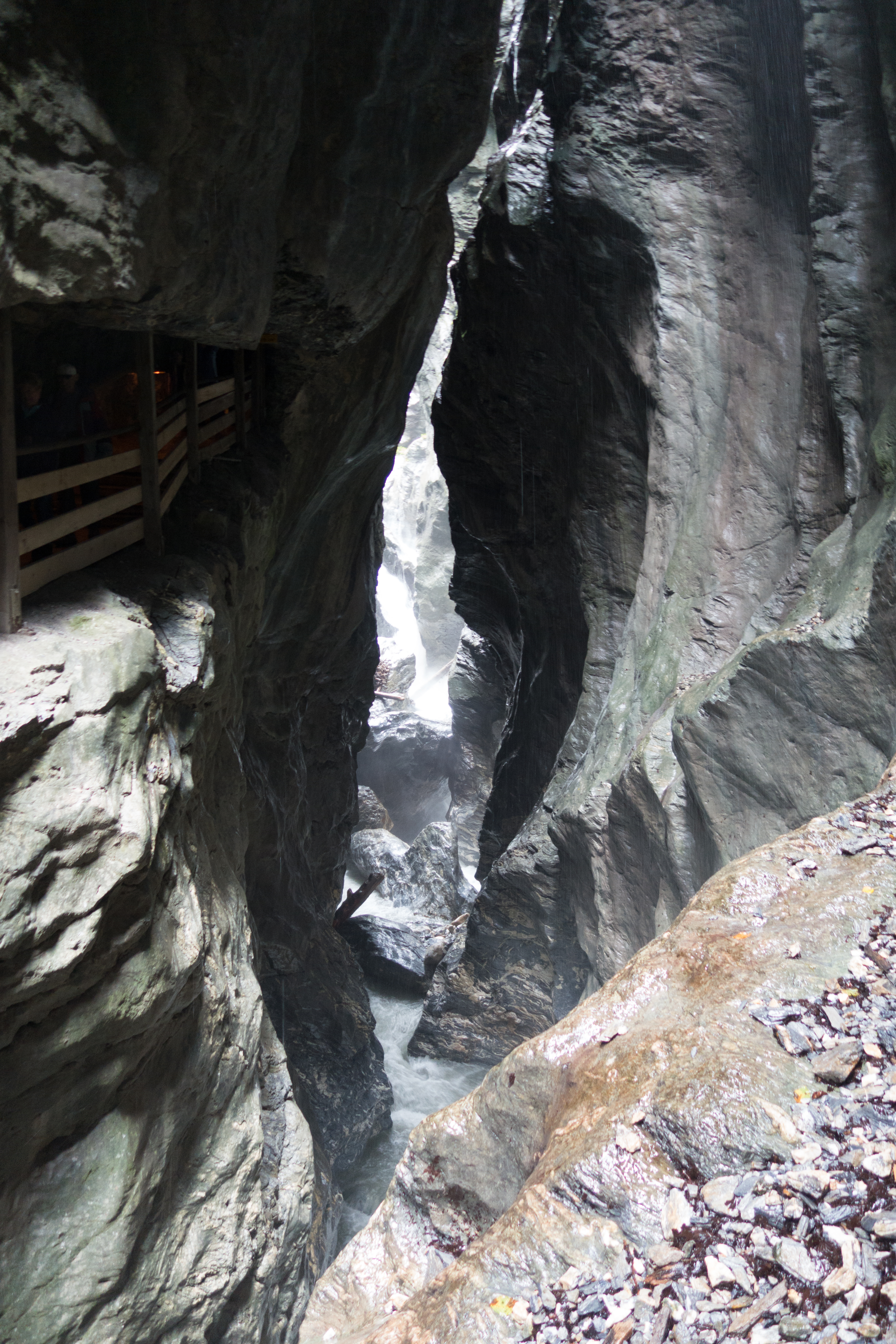 Austria